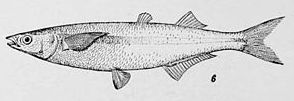 detail from NIE Mullets and Allies.jpg showing only the Jack silverside (Atherinopsis californiensis)